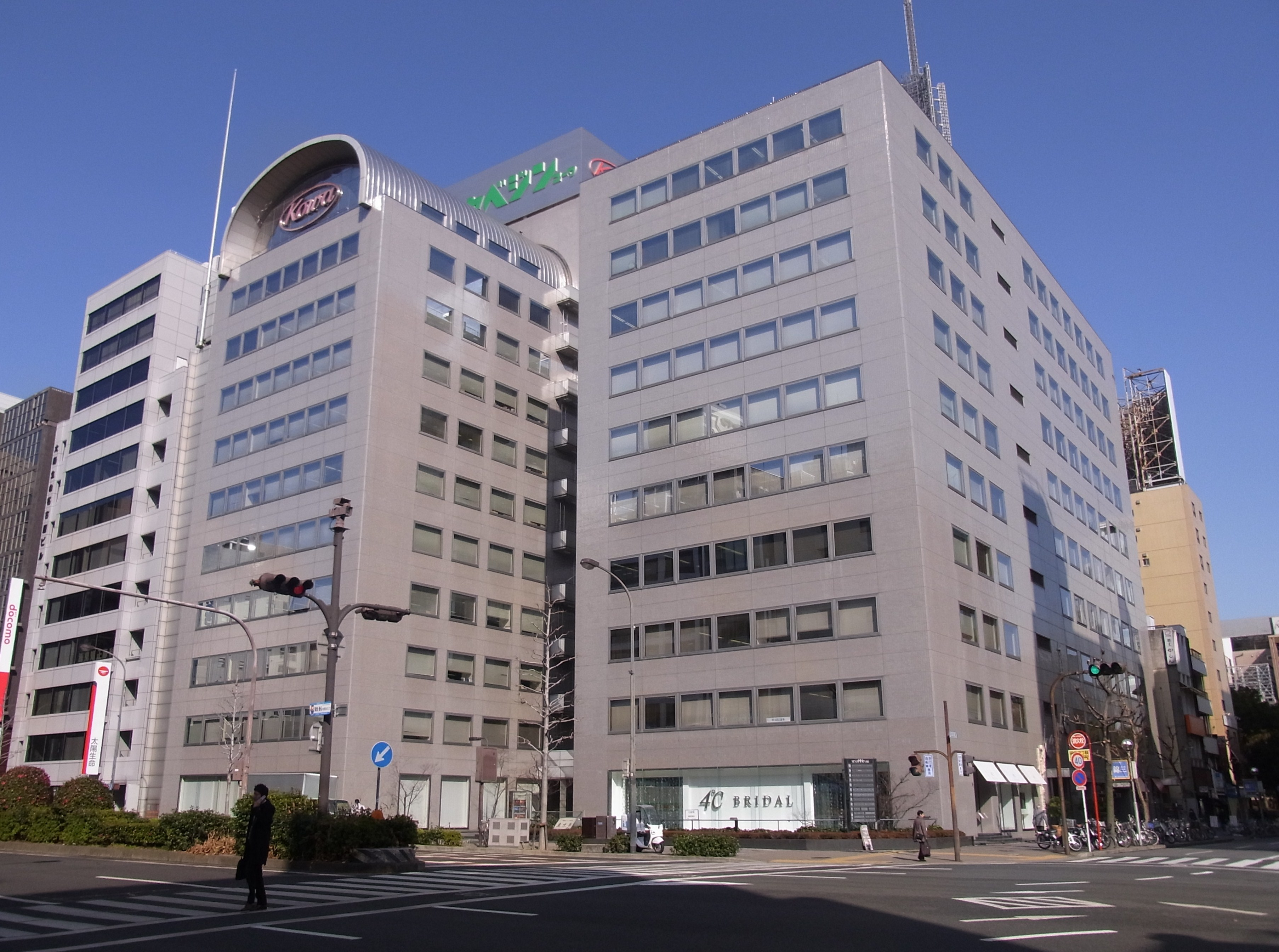 Kowa Headquarters Building and South House in Nishiki, Nagoya.